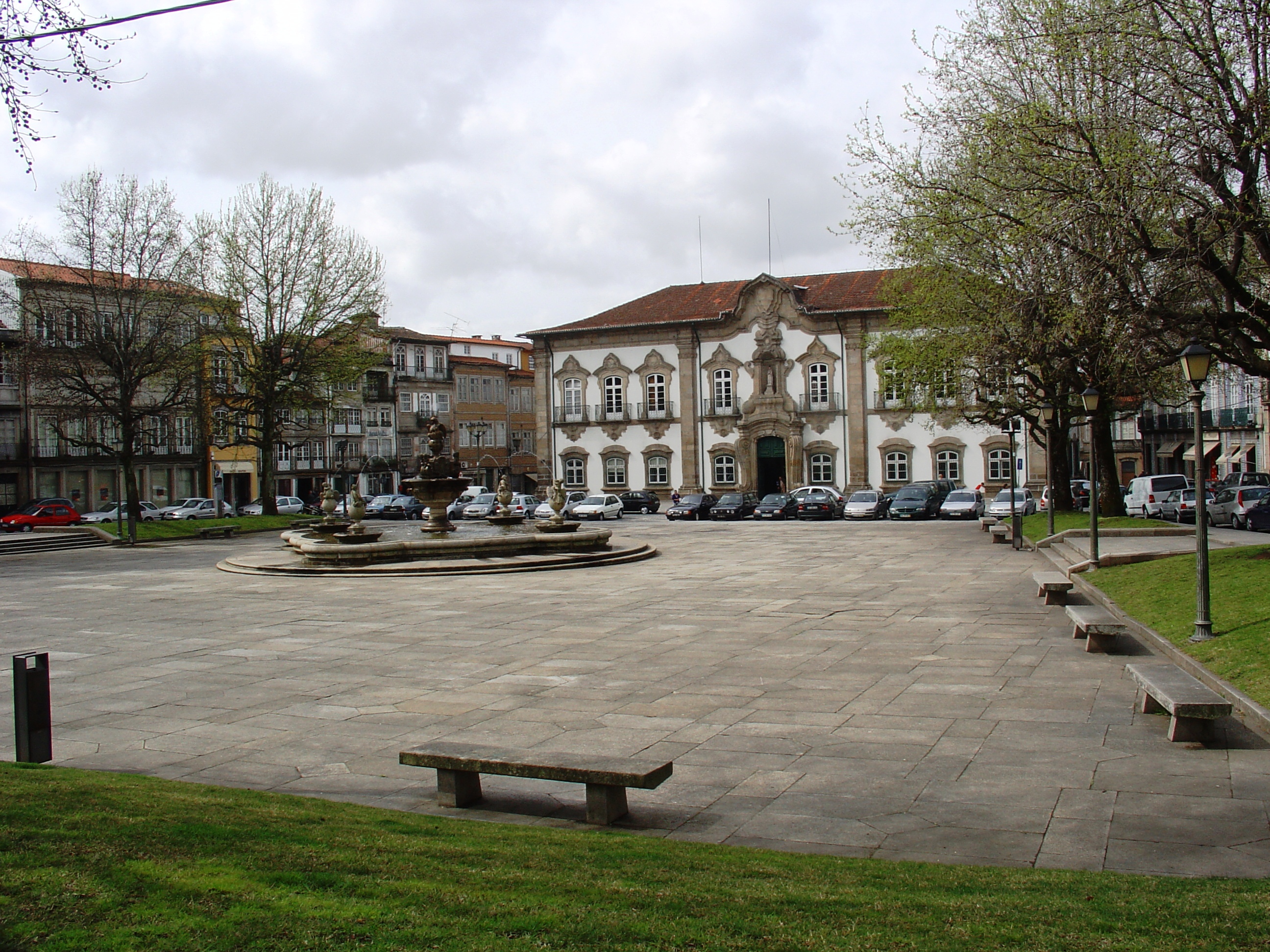 City Hall